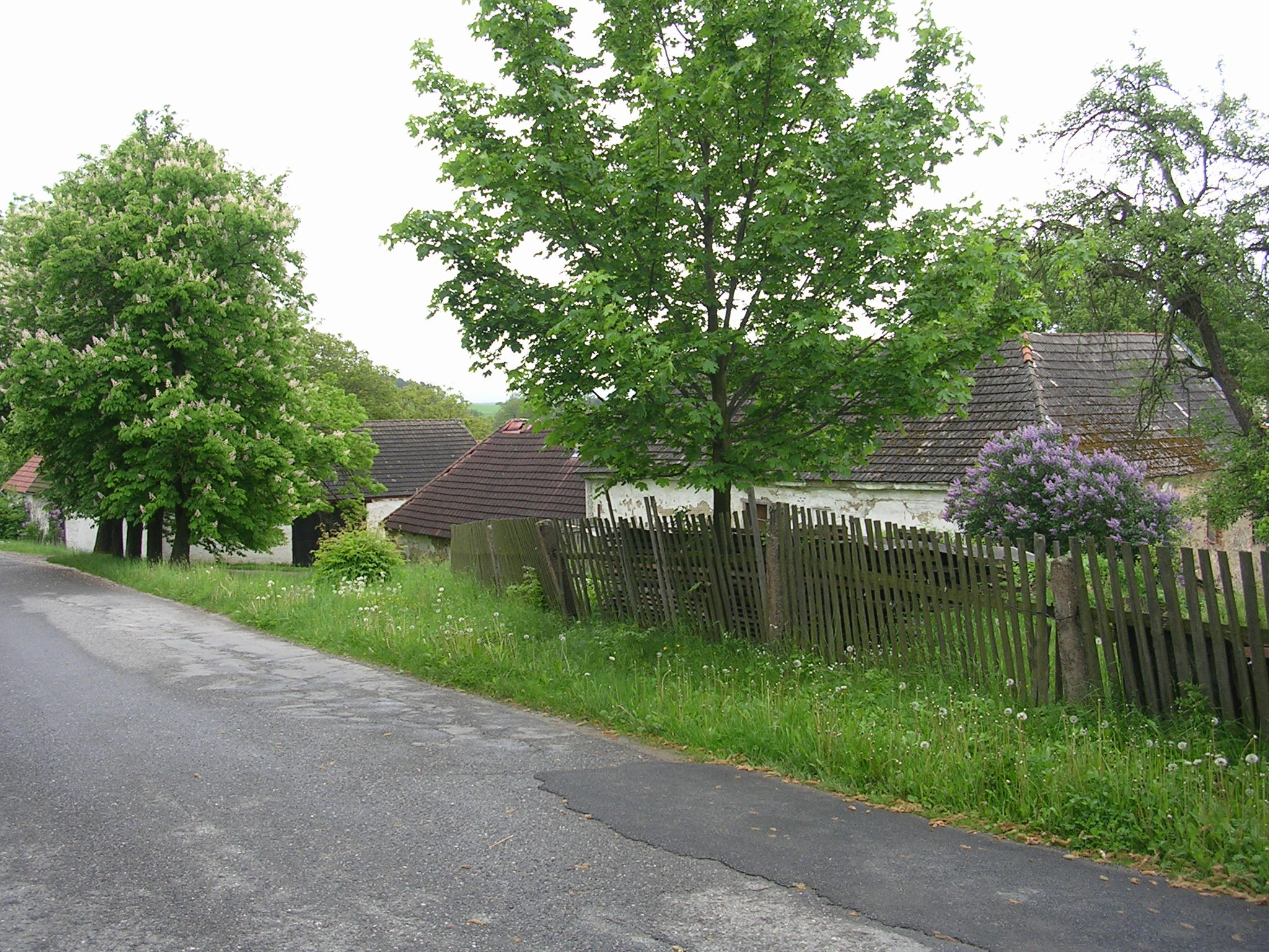 Neustupov-Bořetice, Benešov District, Central Bohemian Region, the Czech Republic.